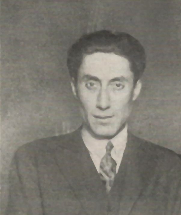 Portrait of egyptian carom billiards player and multiple World Champion Edmond/Edmound Soussa.